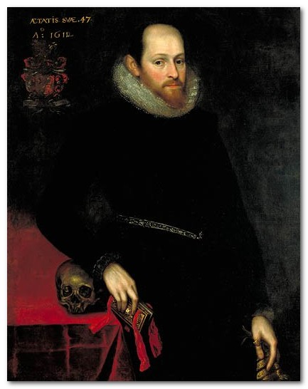 Ashbourne Portrait (in the Folger Library) of an unidentified person from 1611 or 1612 (age 47). The man was long thought to represent William Shakespeare, but also Francis Bacon, Edmund de Vere ,Christopher Marlowe